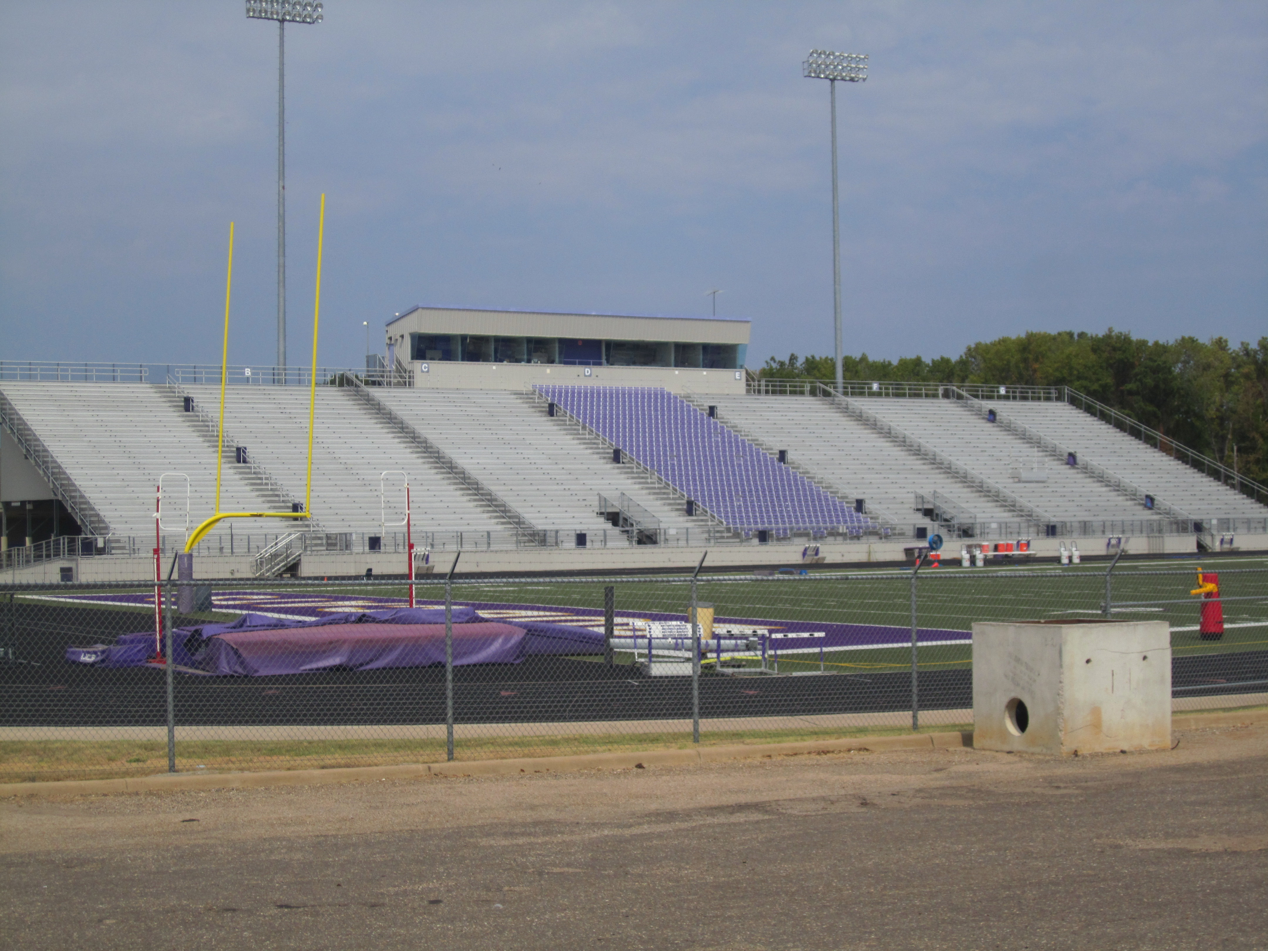 I took photo with Canon camera of Bobcat Stadium in Hallsville, TX.